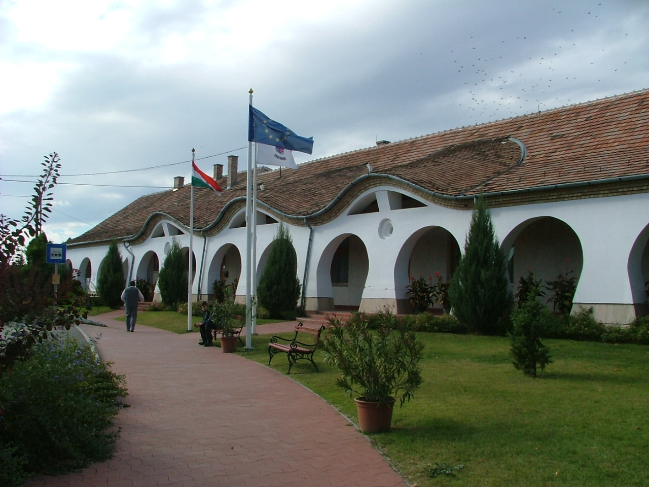 Fertőhomok, Village hall